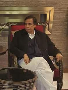 Nambardar Zafar Iqbal with Chaudhry Pervaiz Elahi, former Deputy Prime Minister of Pakistan.